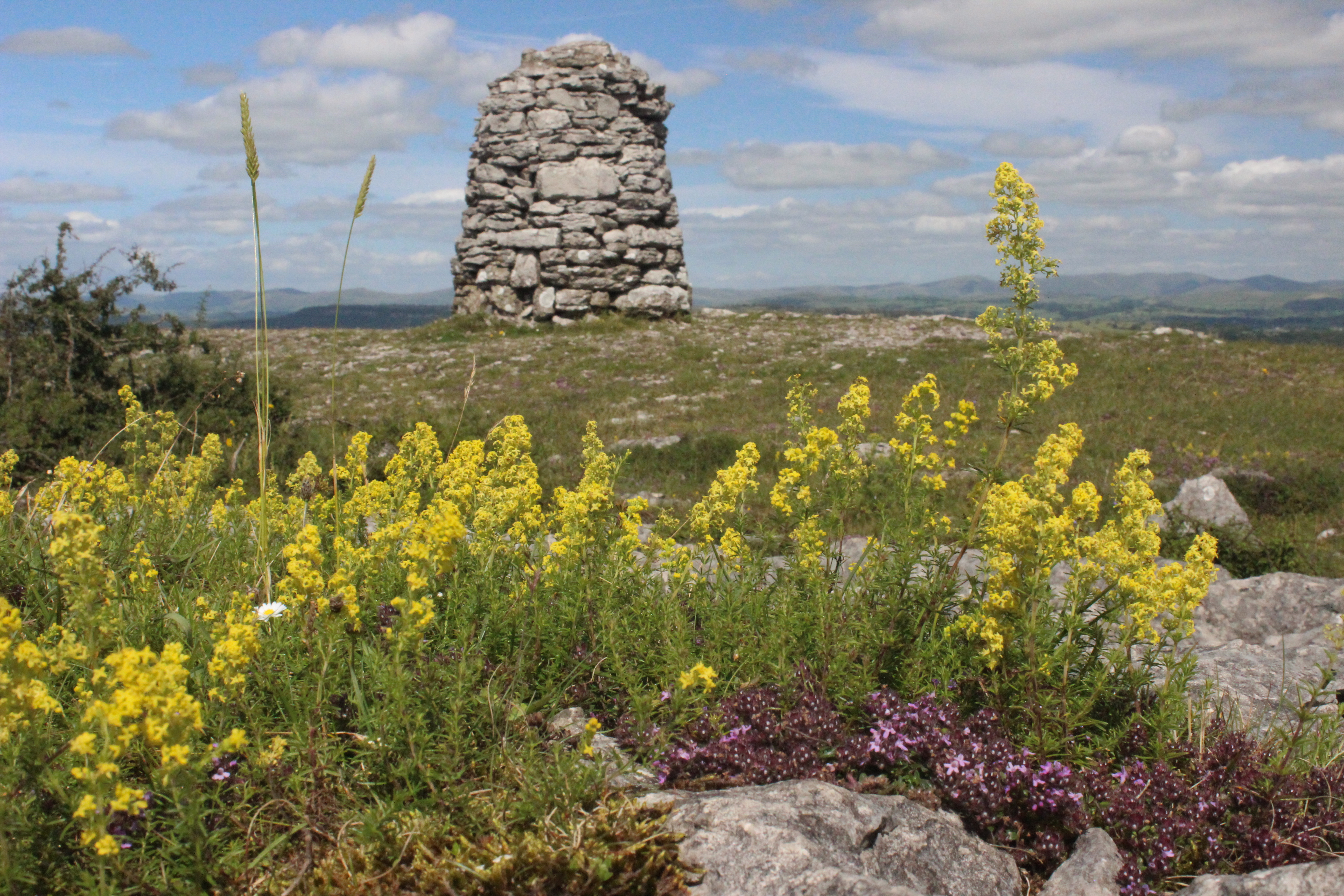 Cairn on the high point of Whitbarrow, Cumbria